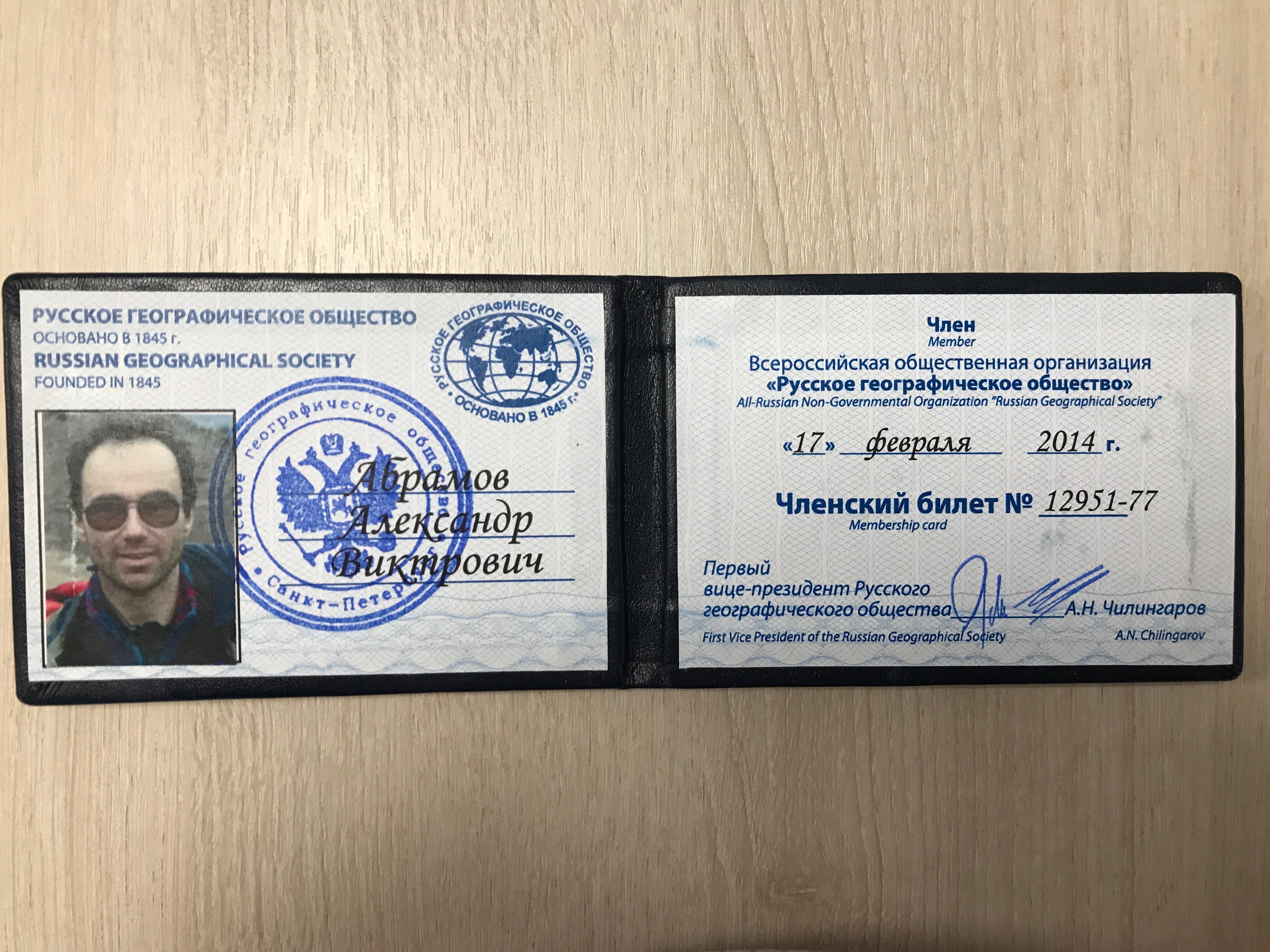 Membership Card Russian Geographical Society addressed to Alexander Abramov